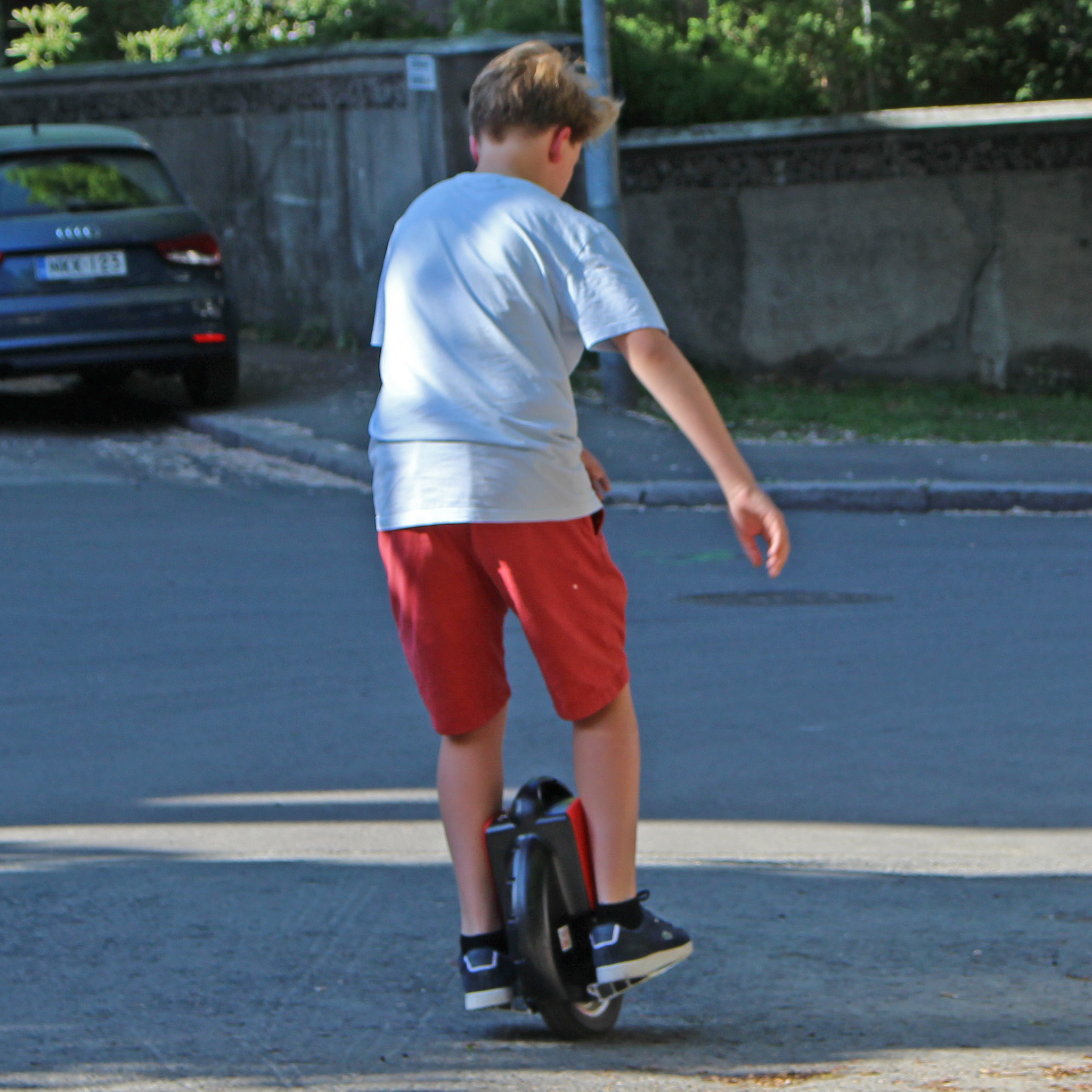 Boy riding Wikipedia:Self-balancing unicycle